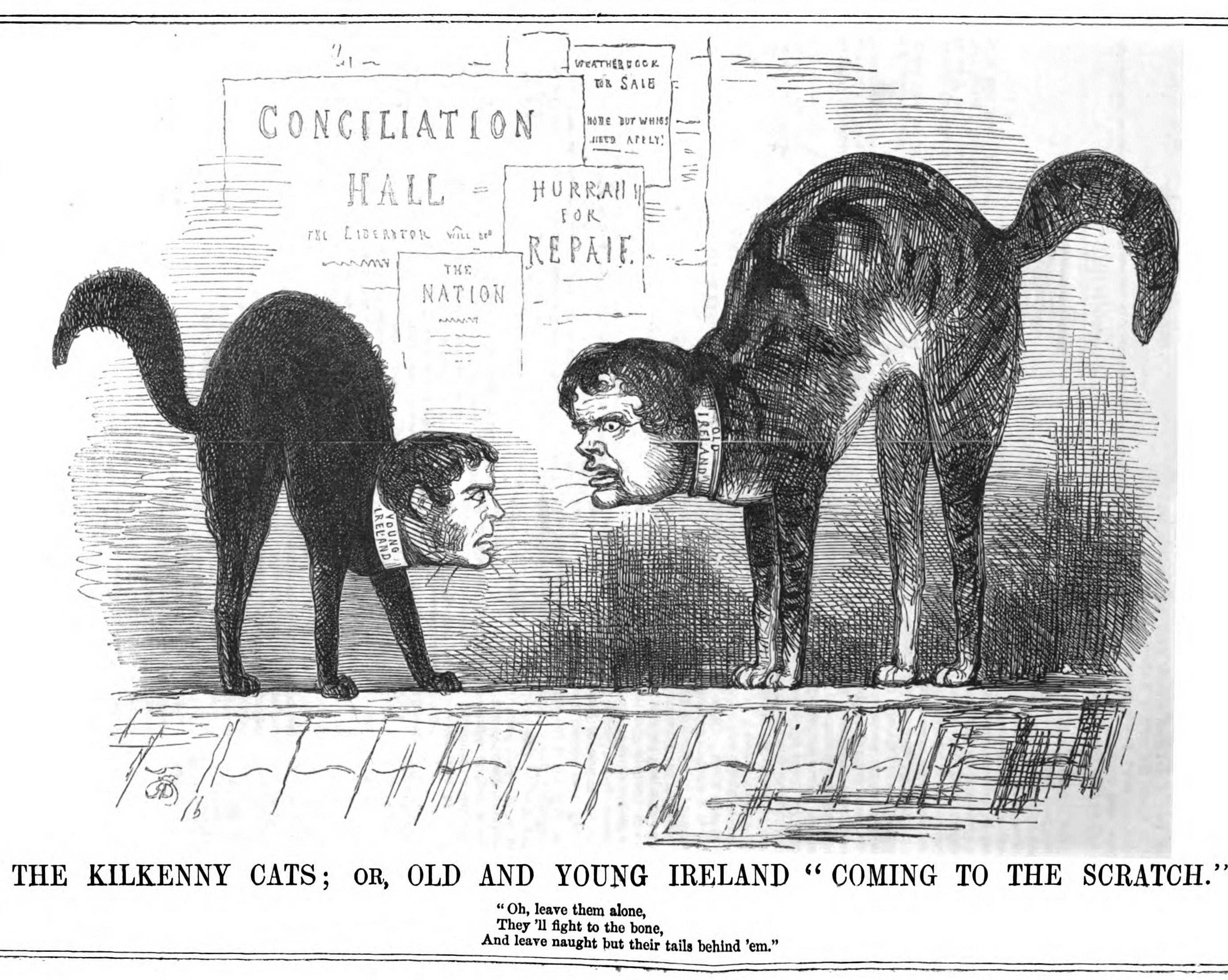 A caricature of "Old Ireland" (Daniel O'Connell, right) and "Young Ireland" (William Smith O'Brien, left) fighting like Kilkenny cats.[1] Published in Punch 8 August 1846 (vol.11 No.265 p.57). Image by Richard Doyle, text by Horace Mayhew.[2] Caption The Kilkenny Cats; or, Old and Young Ireland "coming to the scratch." Subtext "Oh, leave them alone, They'll fight to the bone, And leave naught but their tails behind 'em." References ↑ Punch vol.11 Introduction p.vii Notes 57 ↑ Artists and "Suggestors": The Punch Cartoons 1843-1848 John Bush Jones and Priscilla Shaw Victorian Periodicals Newsletter Vol. 11, No. 1 (Johns Hopkins University Press: March 1978), p.10